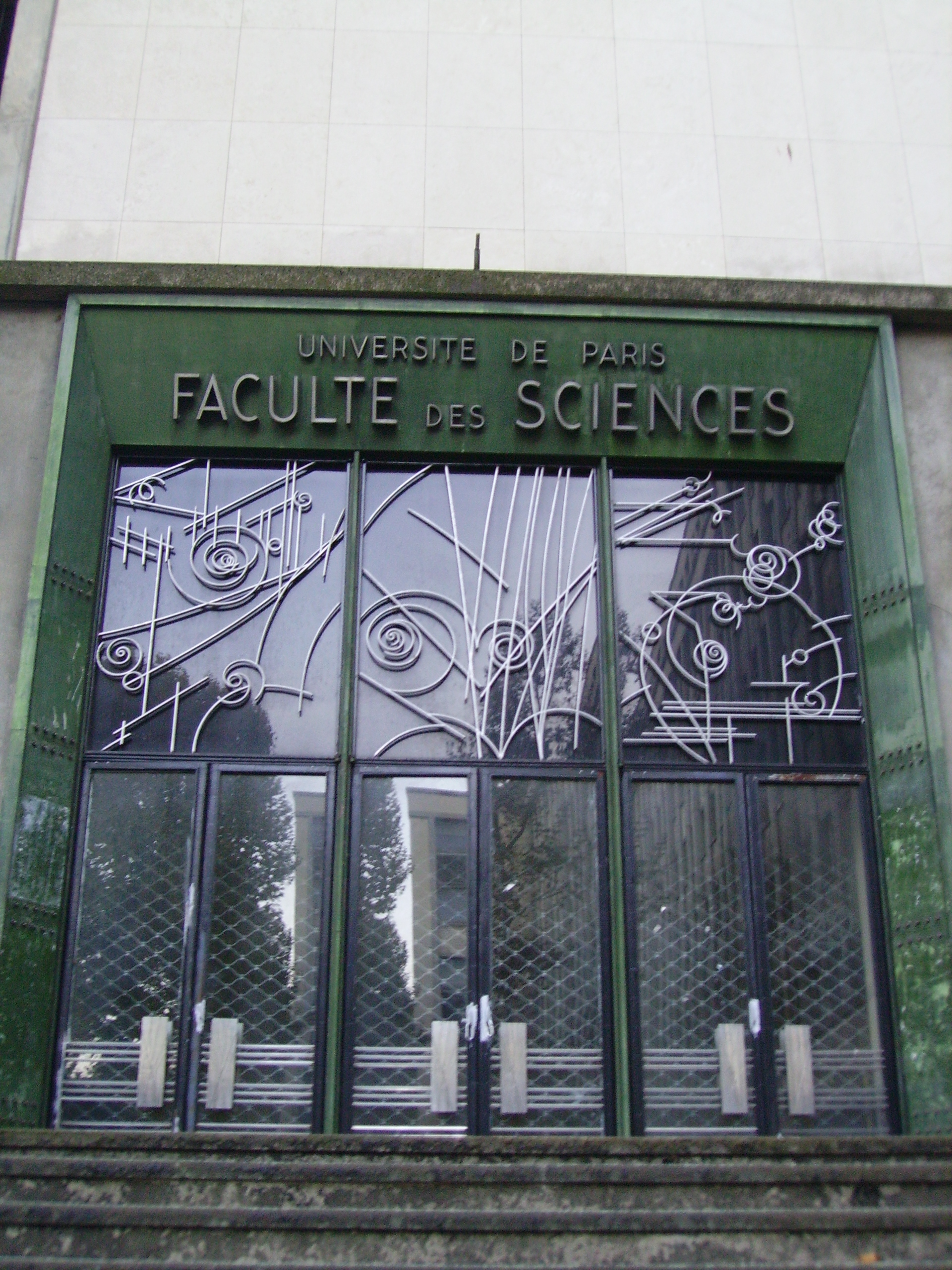 Entrance of the building of the ancient faculty of sciences of the University of Paris at Saint-Bernard Quay (now part of Université Paris-VI buildings)